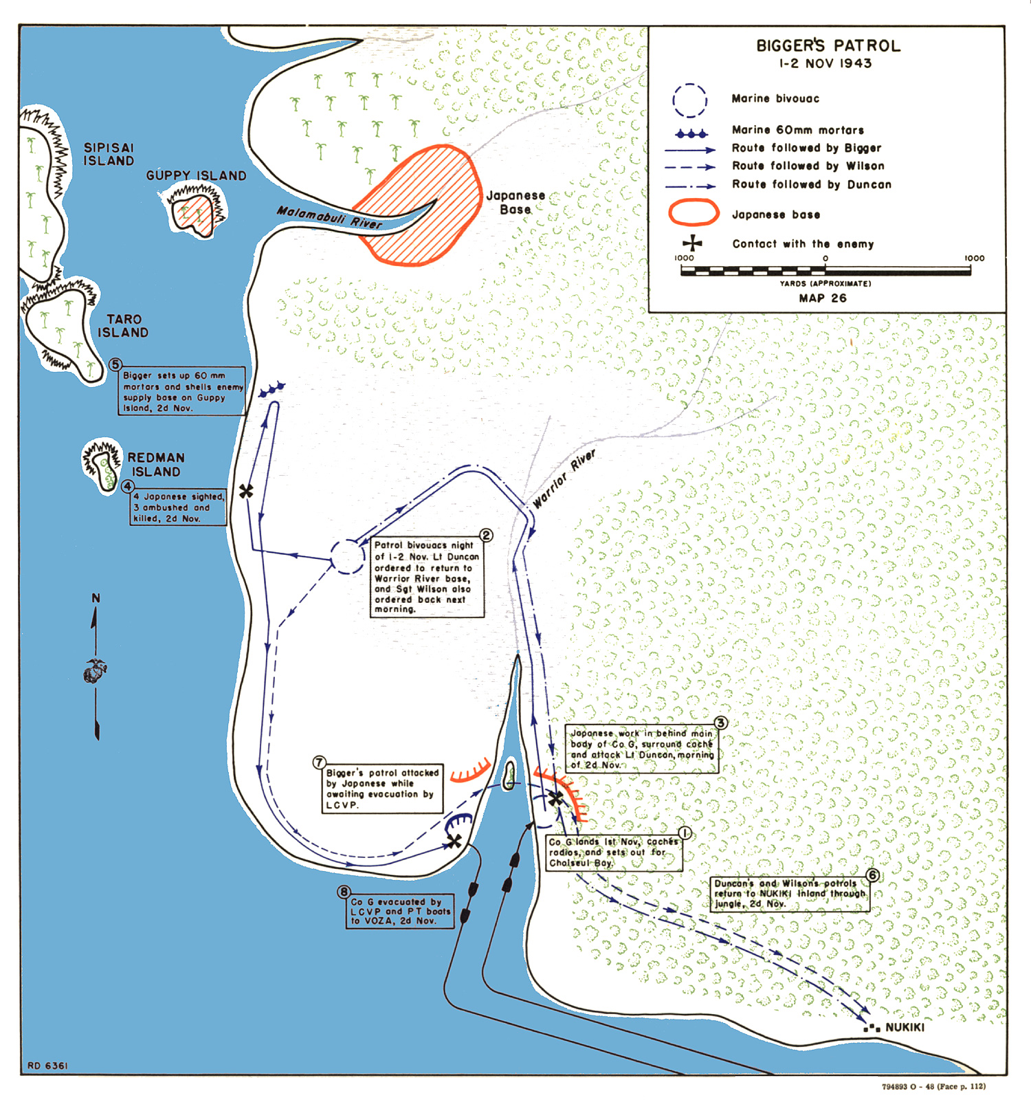 Map depicting the US marine raid on Guppy Island, Choiseul, 1-2 November 1943